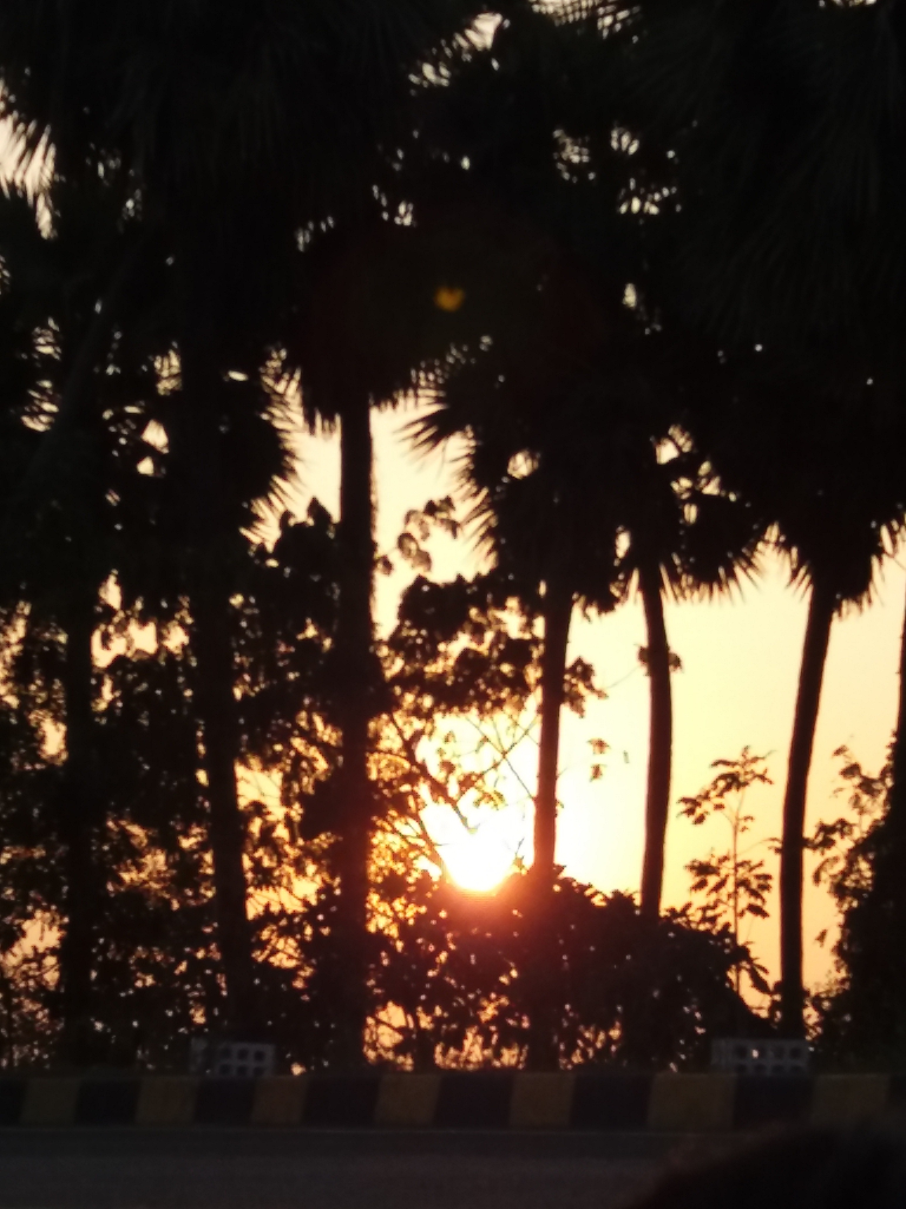 this is just a candid showing hoe beautiful a evening in bhimavaram is